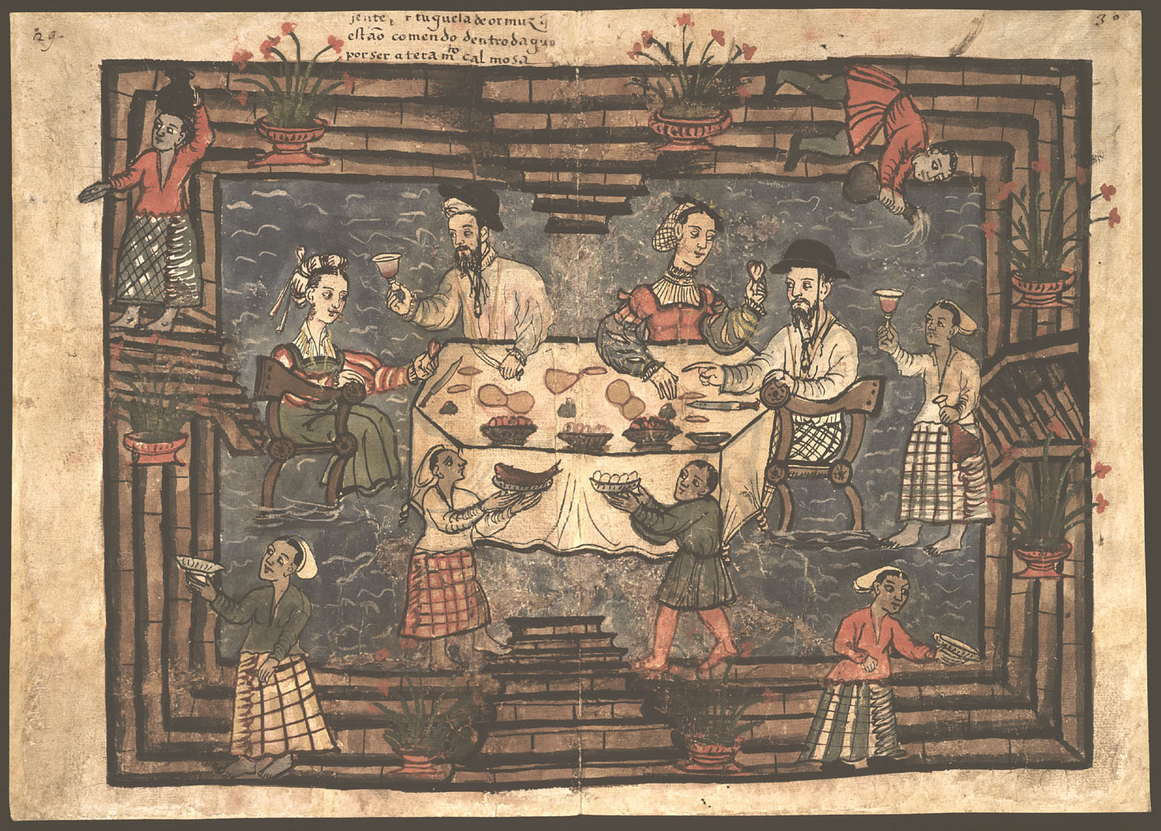 An illustration from the anonymous 16th century Portuguese codex now stored in the Casanata library in Rome, known as the Códice Casanatense, depicting a dinner at a Portuguese household in Hormuz. The room was flooded on purpose to keep the house cool. The inscription reads: "Portuguese folk of Hormuz that are eating in water for the land is very warm"